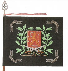 The Colour of Reserve Officer School